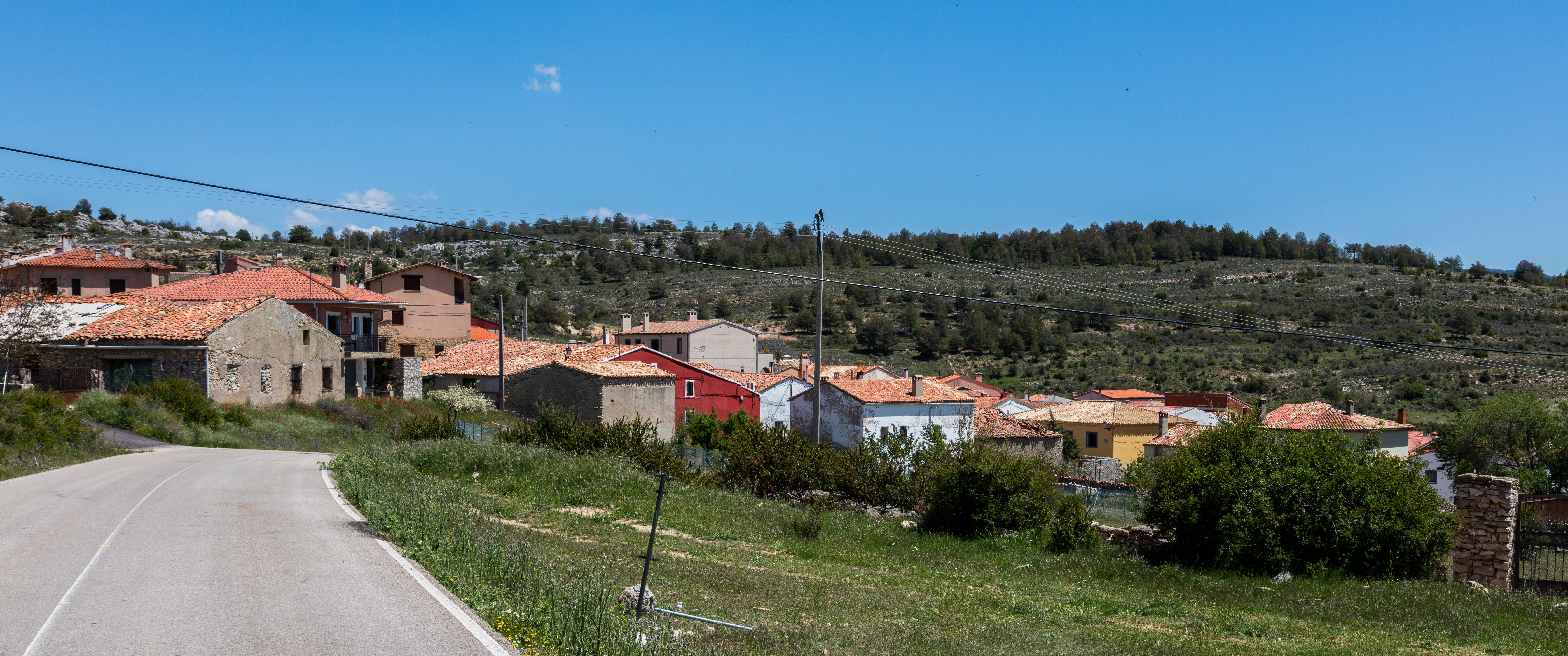 Lagunaseca, Cuenca, Spain